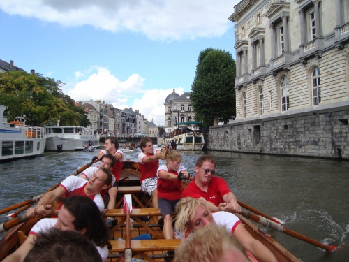 Rowing in Gent